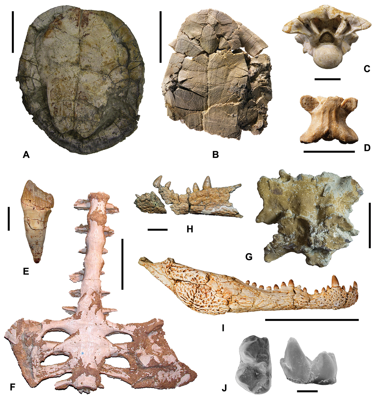 Representative taxa from the late Campanian–early Maastrichtian faunas from Spain. A Iberoccitanemys convenarum (Pleurodira, Bothremydidae), complete shell (HUE-4913) in ventral view (Villalba de la Sierra Formation, Lo Hueco near Fuentes, Cuenca) B Dortoka vasconica (Pleurodira, Dortokidae), partial shell (holotype, MCNA 6313) in ventral view (unnamed unit, Laño, Condado de Treviño) C Menarana laurasiae (Serpentes, Madtsoiidae), mid-trunk vertebra (holotype, MCNA 5337) in posterior view (unnamed unit, Laño, Condado de Treviño) D Herensugea caristiorum (Serpentes, Madtsoiidae), mid-trunk vertebra (holotype, MCNA 5387) in dorsal view (unnamed unit, Laño, Condado de Treviño) E Rhabdodon sp. (Ornithopoda, Rhabdodontidae), maxillary tooth (MGUV CH-162) in labial view (Sierra Perenchiza Formation, Chera, Valencia) F Struthiosaurus sp. (Ankylosauria, Nodosauridae), synsacrum (MCNA 7420.1) in ventral view (unnamed unit, Laño, Condado de Treviño) G Ampelosaurus sp. (Sauropoda, Titanosauria), braincase (HUE-8741) in dorsal view (Villalba de la Sierra Formation, Lo Hueco near Fuentes, Cuenca) H Doratodon ibericus (Crocodyliformes, Ziphosuchia), left dentary (holotype, MGUV 3201) in lateral view (Sierra Perenchiza Formation, Chera, Valencia) I Musturzabalsuchus buffetauti (Crocodyliformes, Eusuchia), right mandible (paratype, MCNA 7480) in lateral view (unnamed unit, Laño, Condado de Treviño) J Lainodon orueetxebarriai (Eutheria, Zhelestidae), first lower molar (holotype, MCNA L1AT 14) in occlusal and labial views (unnamed unit, Laño, Condado de Treviño). Scale bars equal 10 cm (A, F, I), 5 cm (B, G), 2 cm (H), 1 cm (C, E), 5 mm (D), 1 mm (J). Photographs courtesy by Adán Pérez-García (A), J. Carmelo Corral (B–D), Julio Company (E, H), GBE-UNED/MCCM (G), Francisco Ortega (I) and Emmanuel Gheerbrant (J).